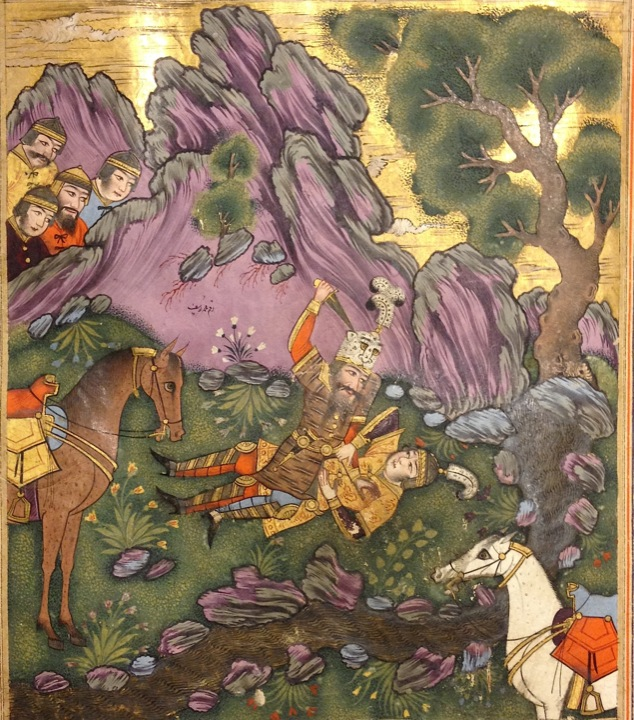 Depiction of Rostam and Sohrab from the Windsor Shahnameh, 1648, signed by Mohammad Yusef the Painter